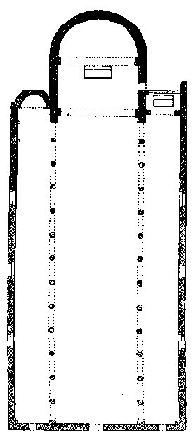 Church of S. Apollinaire in Classe, Ravenna (plan)